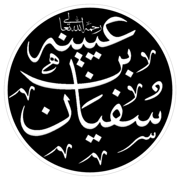 Calligraphy of Sufyan ibn Uyaynah